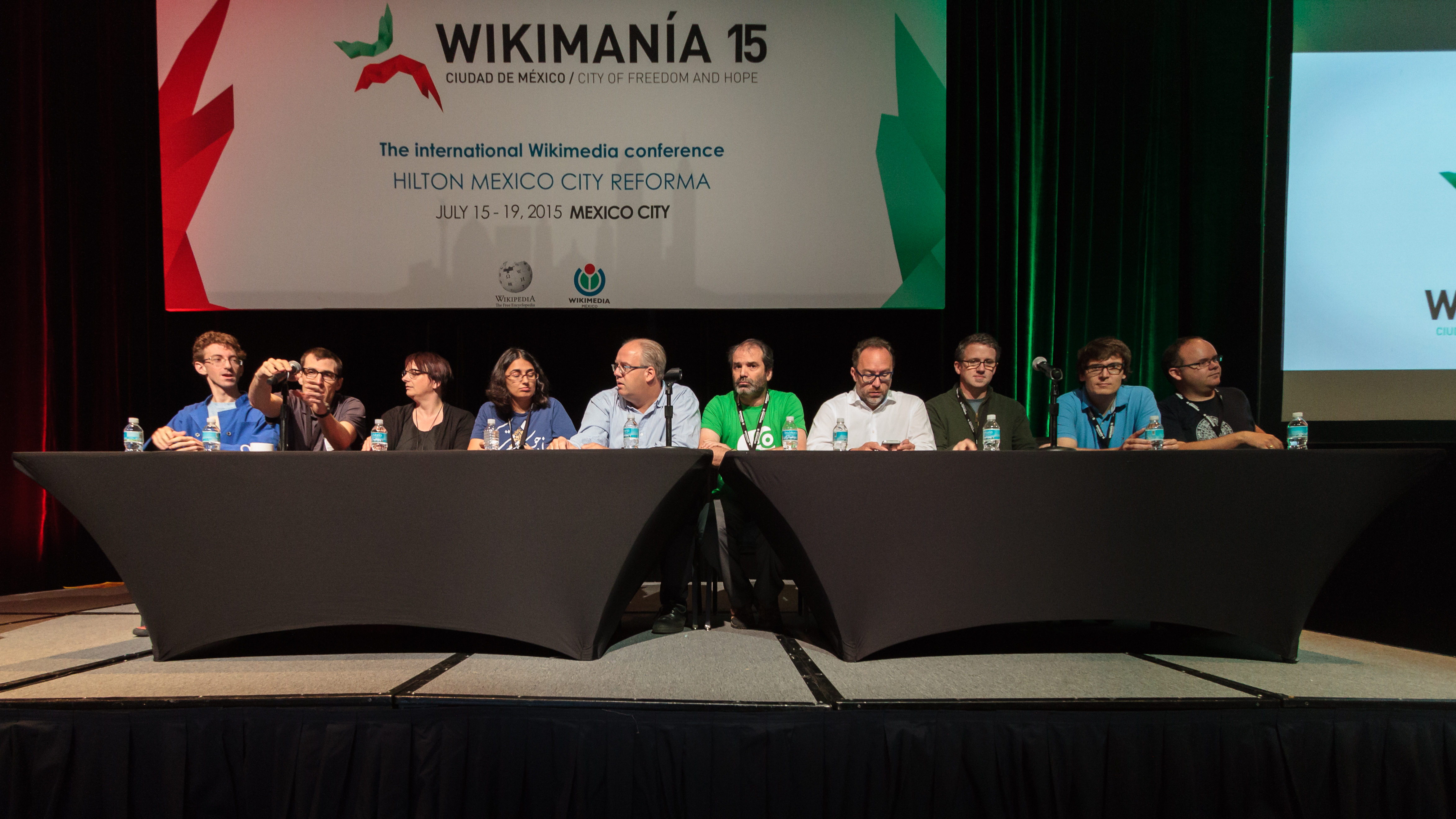 Board of the Wikimedia Foundation at Wikimania 2015 during the board Q&A session.